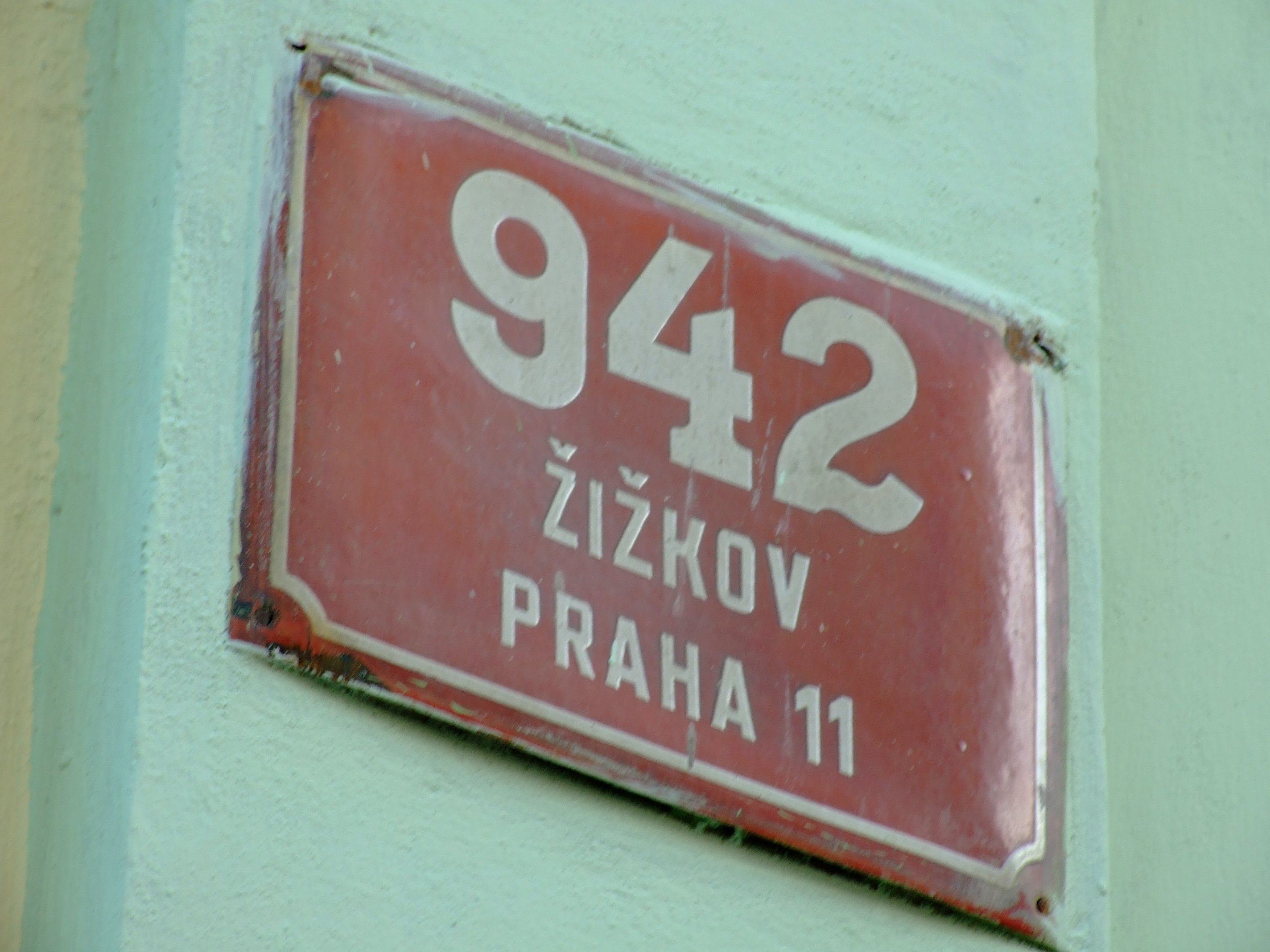 Old Prague district and number sign in Žižkov, Prauge, CZ